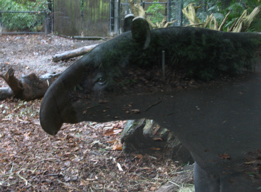 Adult male Malayan Tapir at the Woodland Park Zoo, Seattle, Washington, USA. Photo by Sasha Kopf